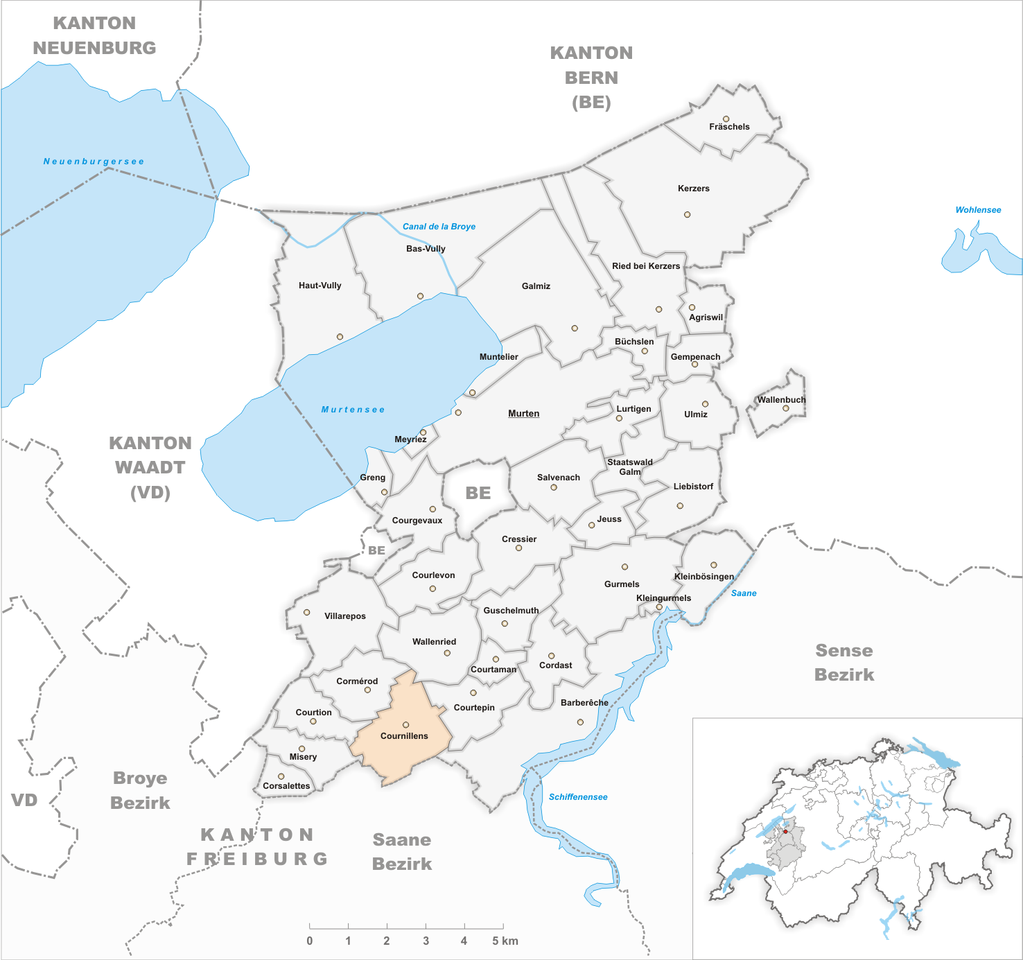 Municipality Cournillens Artist: Tschubby